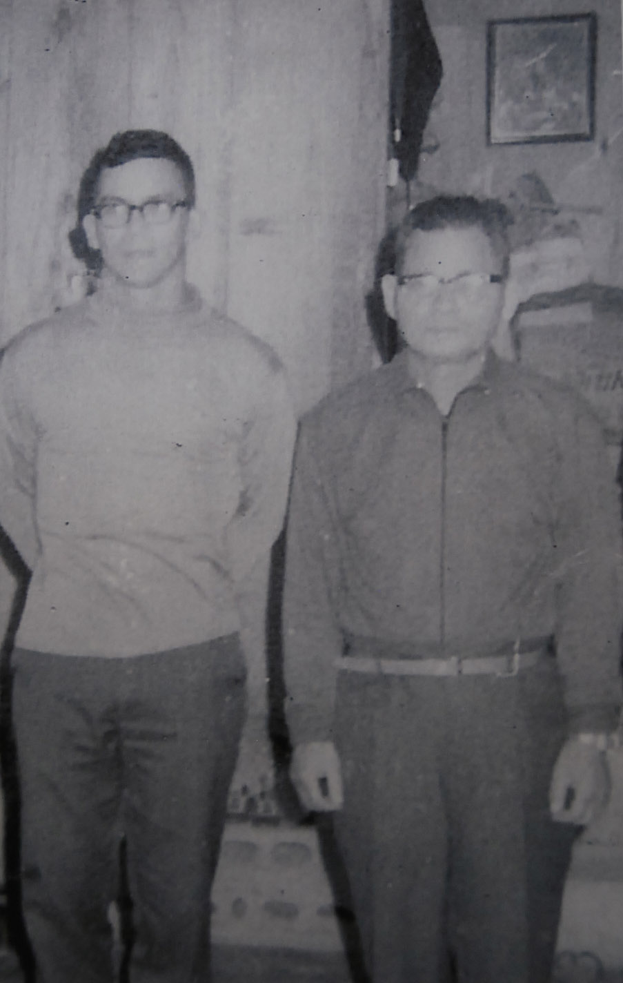 A. J. Advincula with Master Shimabuku